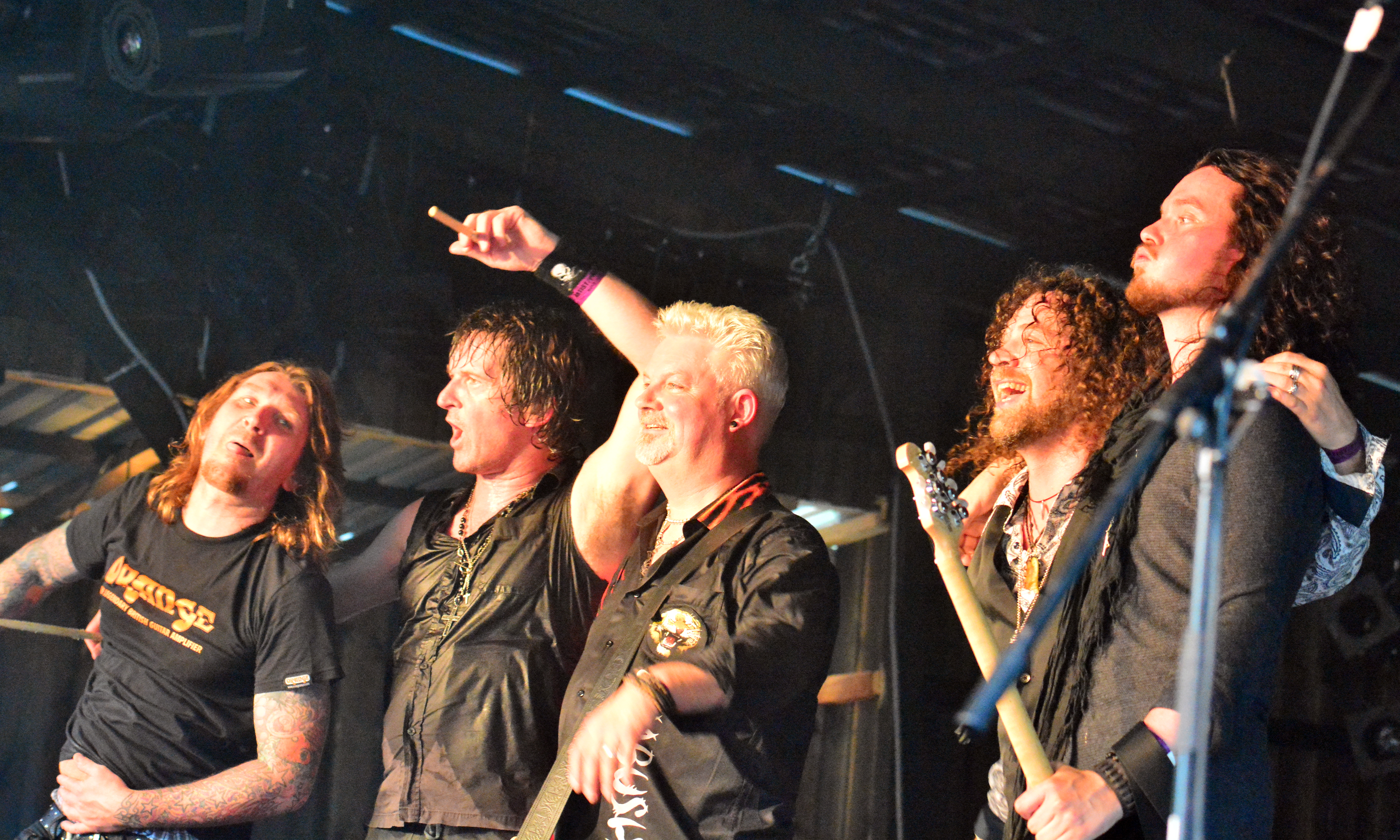 Tygers of Pan Tang at Headbangers Open Air 2014